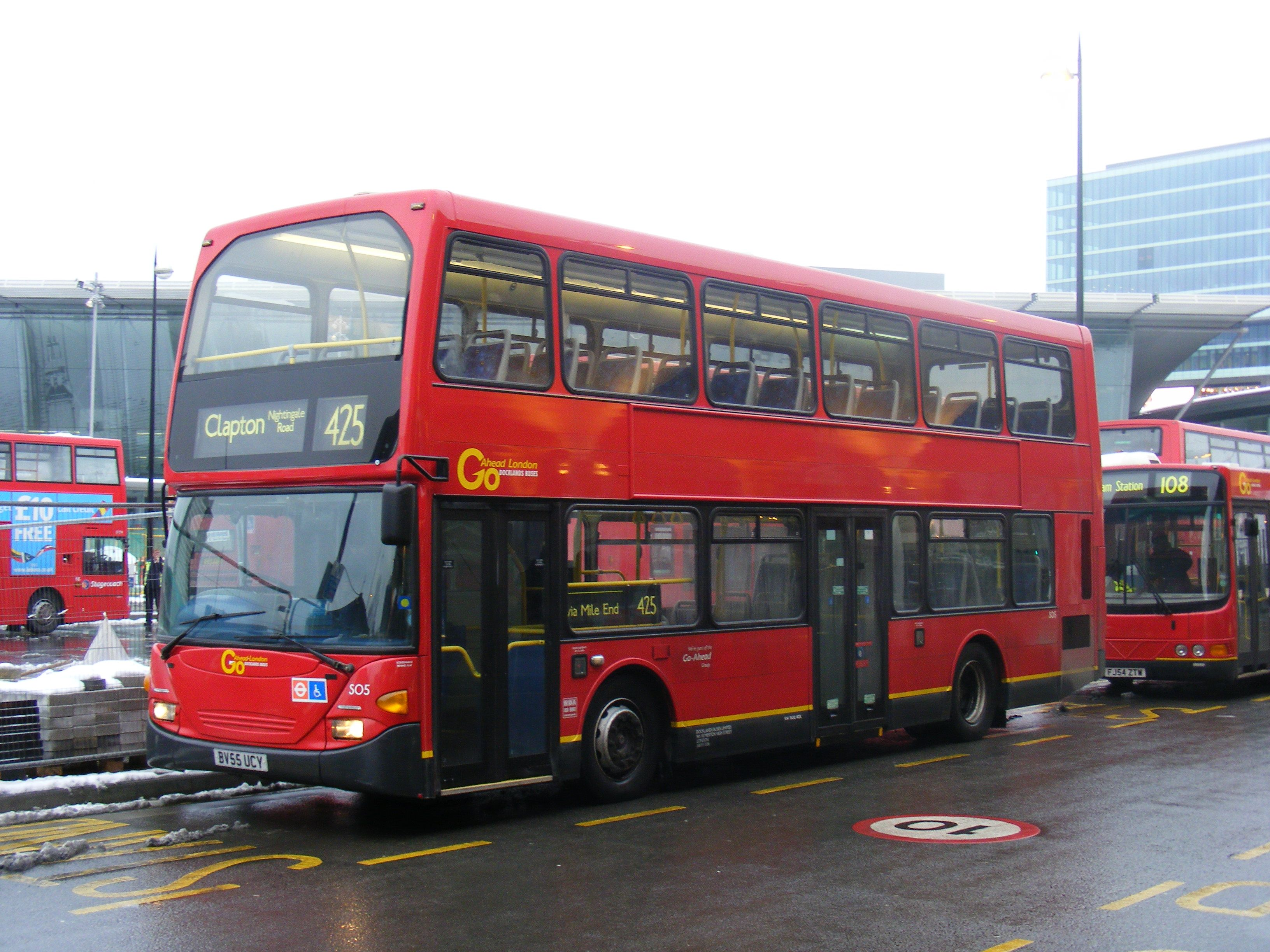 425 bus at Stratford , still sporting a Go-Ahead grey skirt. Scania Omnidekka N94UD One of a batch of 5 new to Blue Triangle, SO1-5 UCT/VU/X/Y East Lancs body.